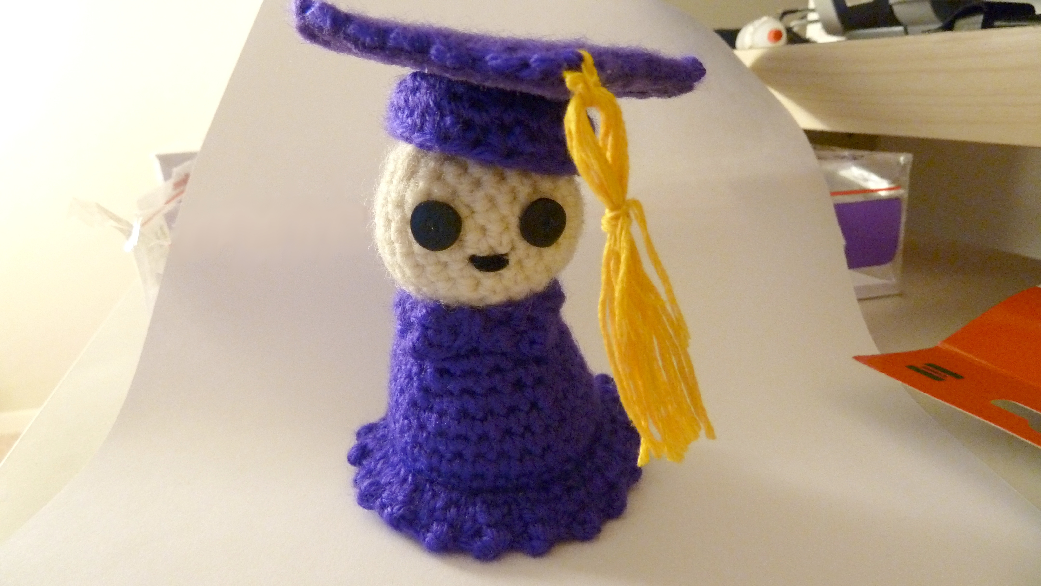 Images of custom Amigurumi, an amirugami graduate in cap and gown. Self-made.